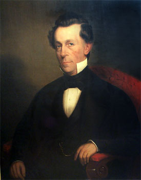 William Fell Giles (1807-1879)